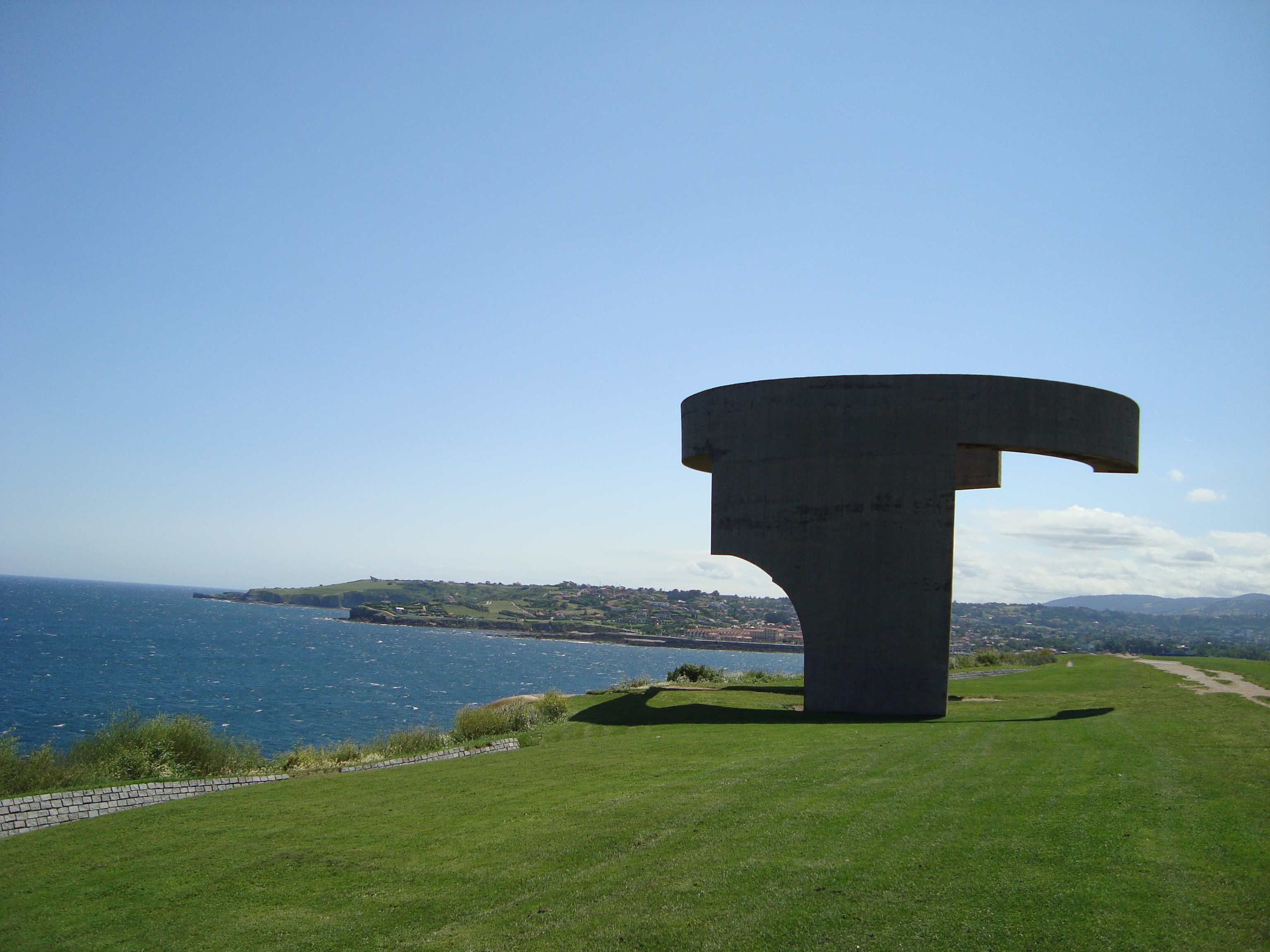 Gijon